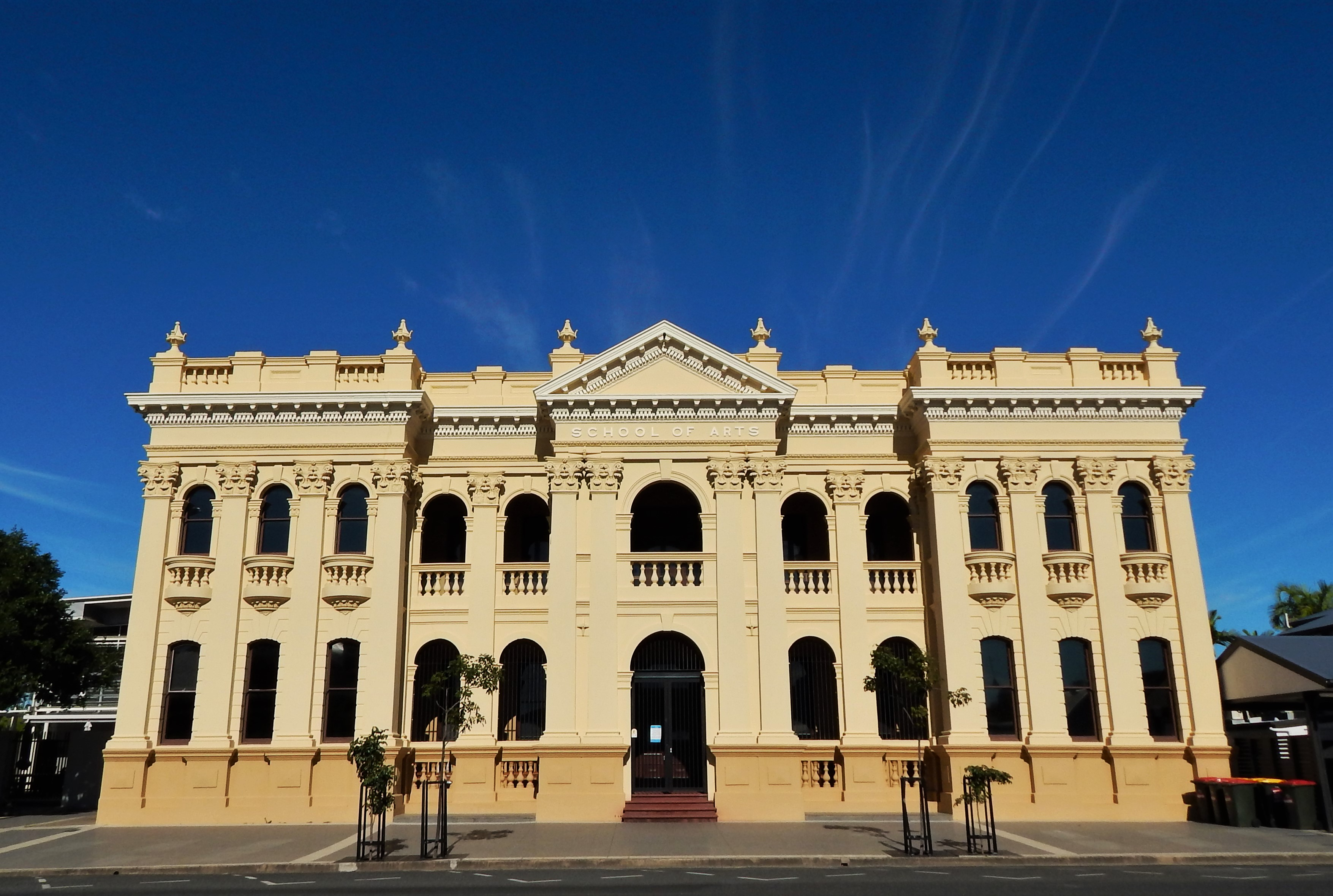 The heritage-listed School of Arts building located in the regional Australian city of Rockhampton, Queensland at 230 Bolsover Street.